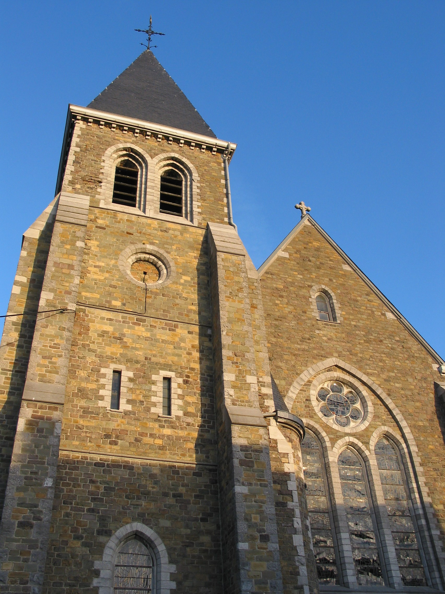 Moha (Belgium), the Our Lady of the Rosary church (1912).